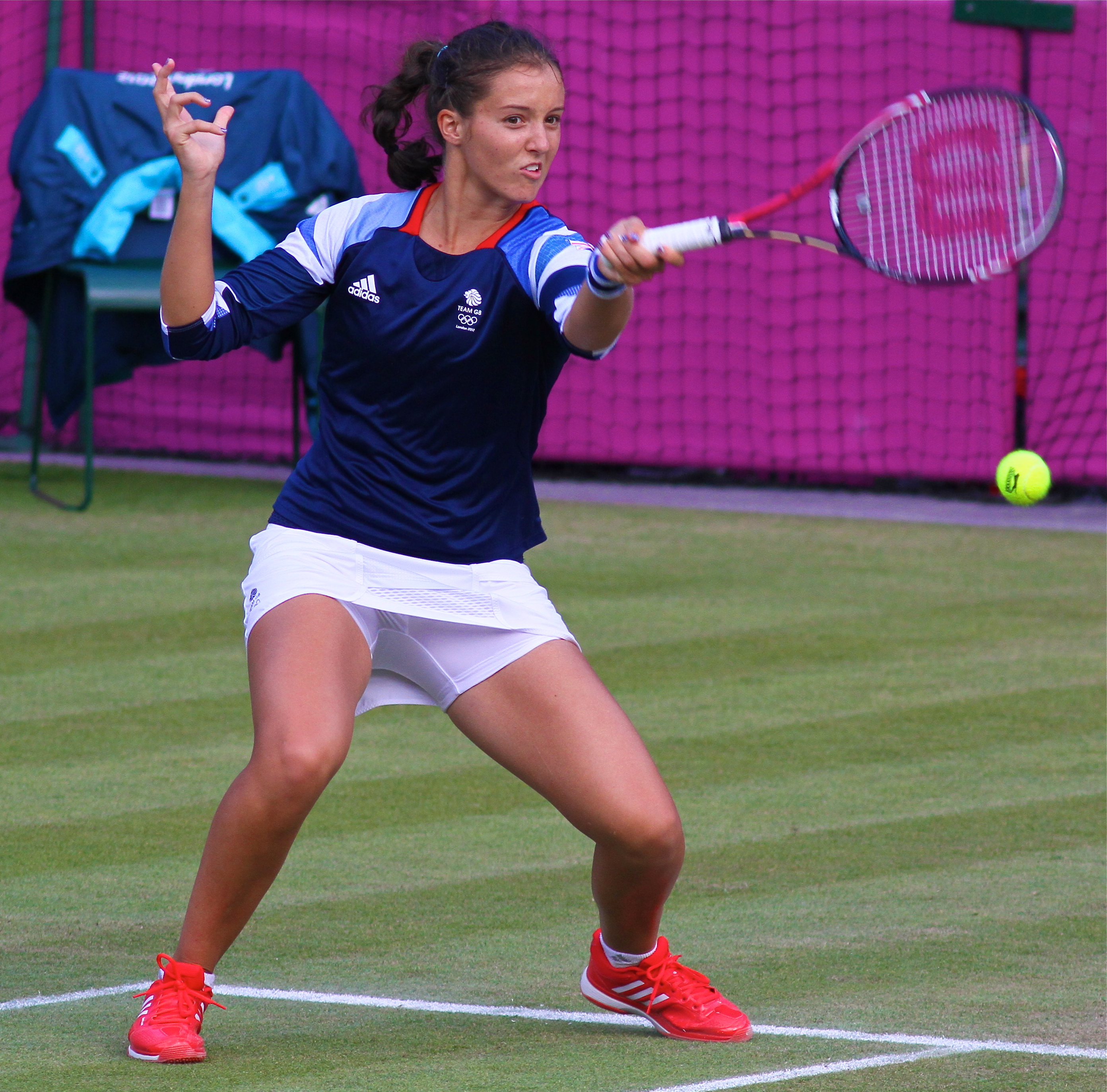 Posted via email from Globalite Magazine